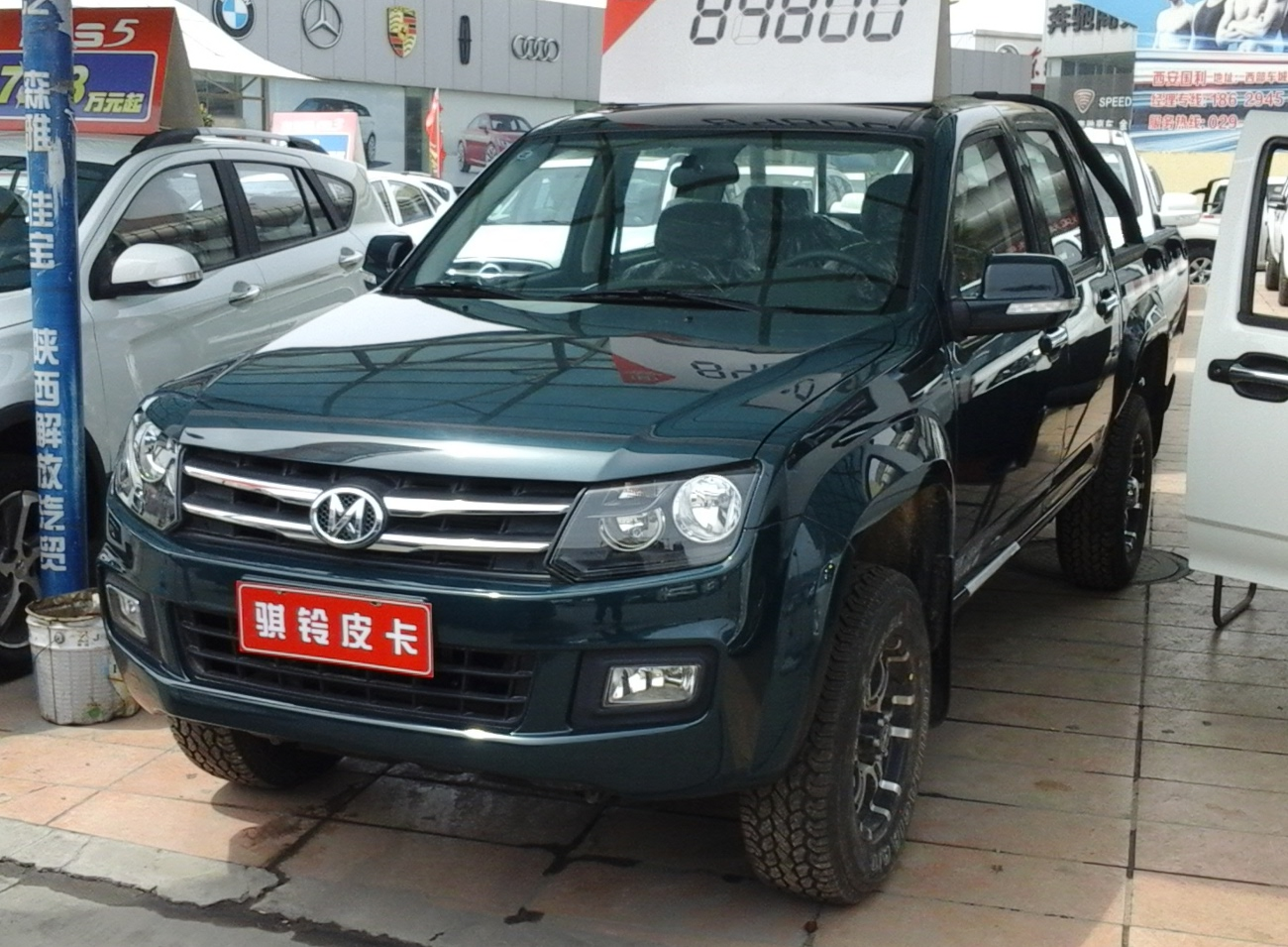 JMCGL Qiling T7 photographed in Xi'an, Shaanxi province, China.